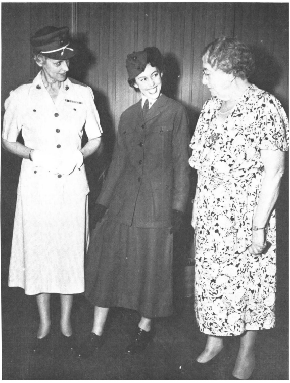 In 1946, Mrs. Opha Johnson, the Marine Corps' first woman Marine, and former Director of Women Marines, Colonel Katherine A. Towle, admire the uniform worn by Mrs. Johnson, modeled by PFC Muriel Albert. (USMC Photo 313950).